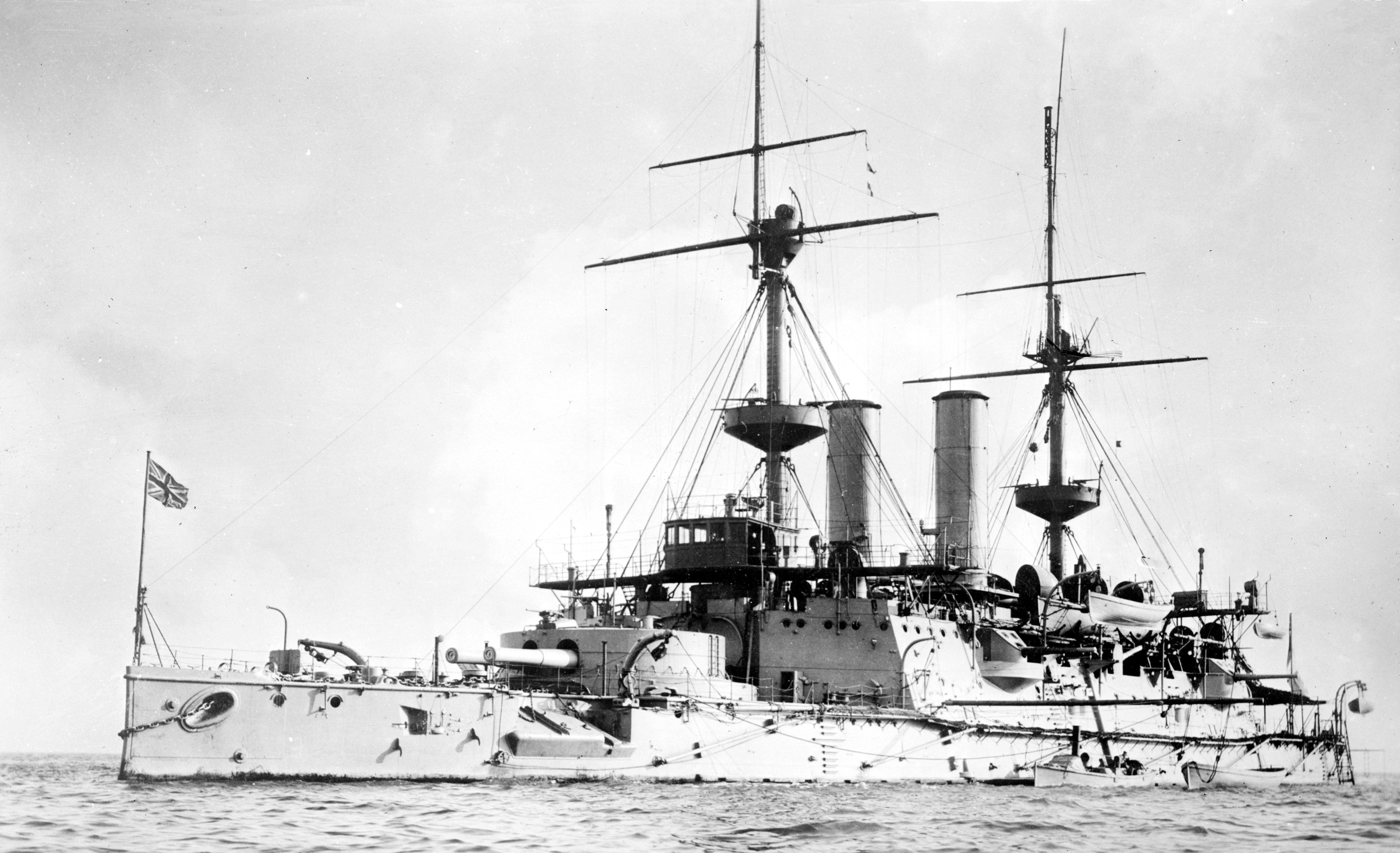 HMS Hood (1891), British battleship